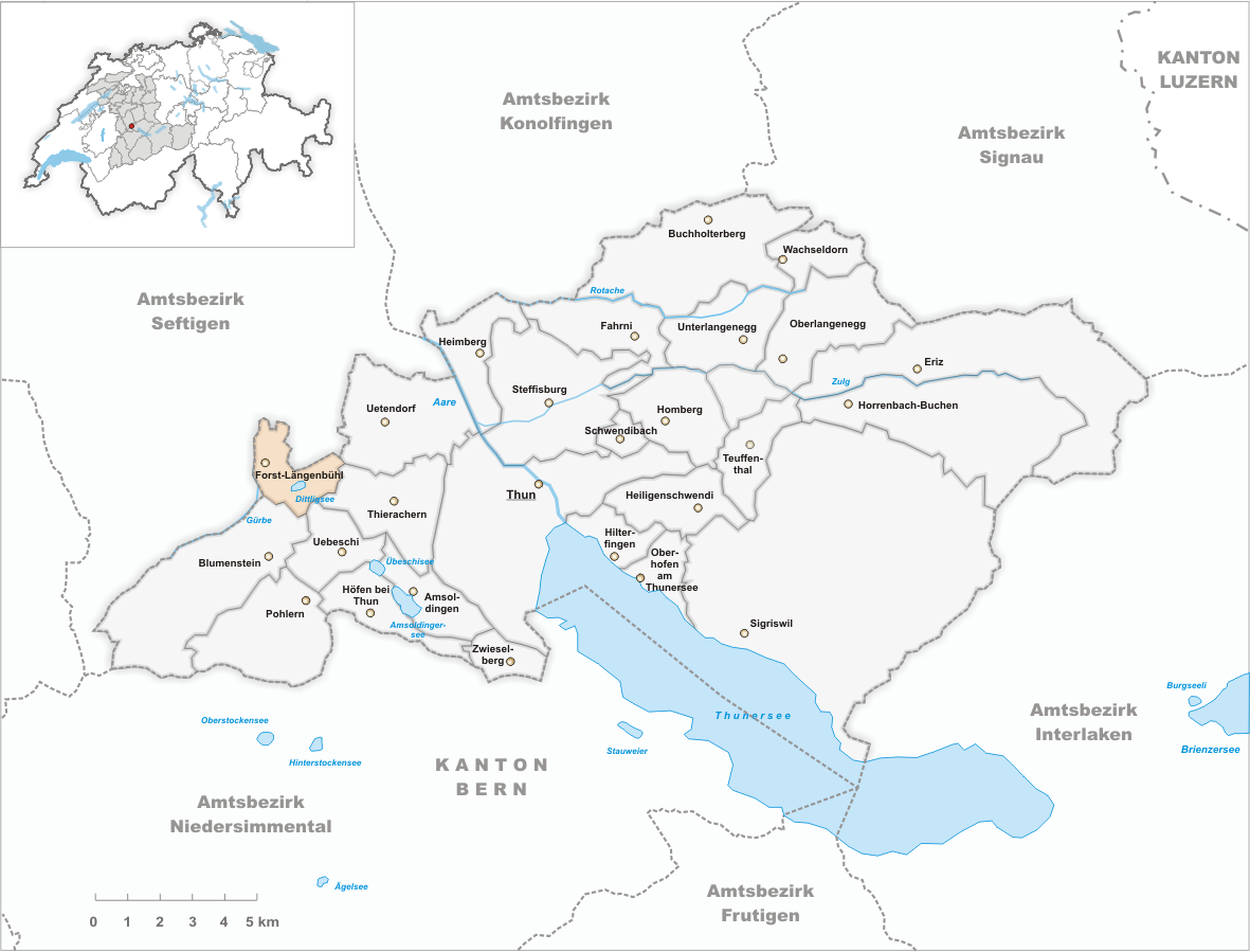 Municipality Forst-Längenbühl